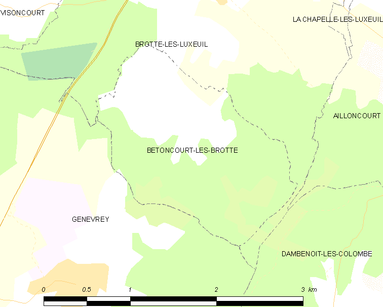 Map of French municipality